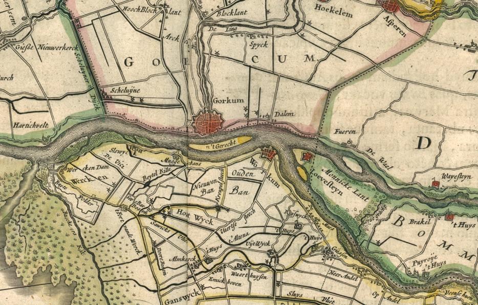 detail of this map showing the cities Gorinchem and Woudrichem (spelled as Gorkum and Workum) and fort Loevestein